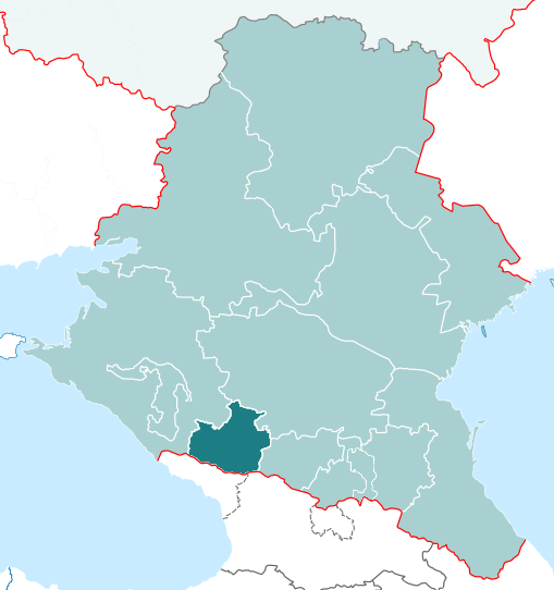 Locator map of Karachay-Cherkess Republic as part of former Southern Federal District before North Caucasian Federal District was split from it in 2010